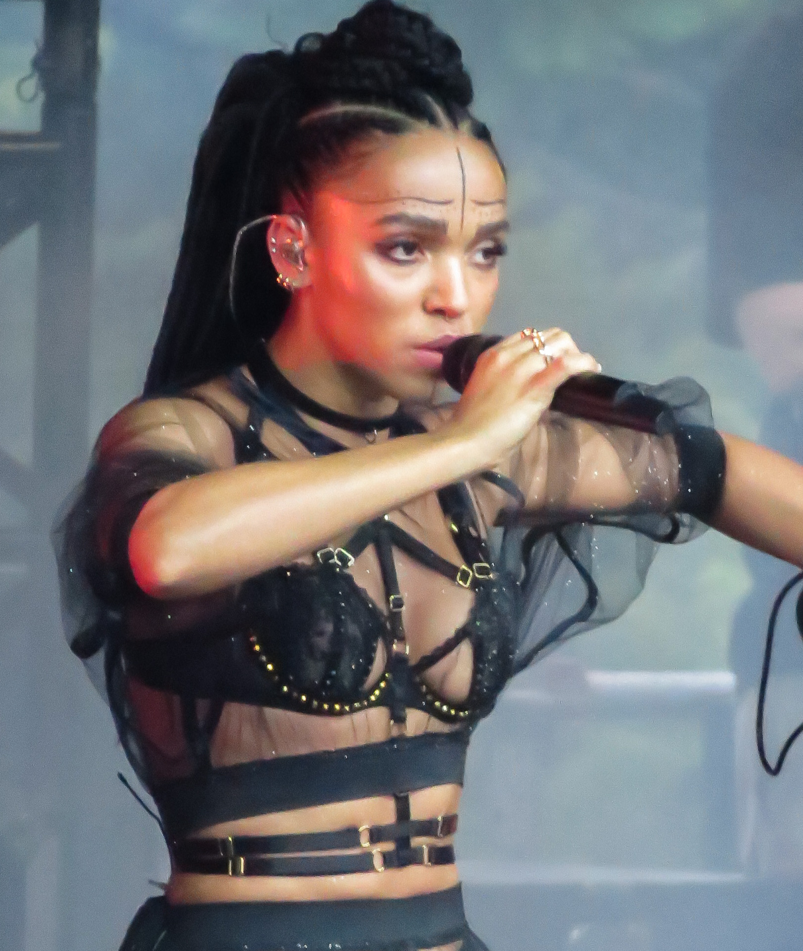 FKA twigs at Laneway Festival, Sydney on 31 January 2015.